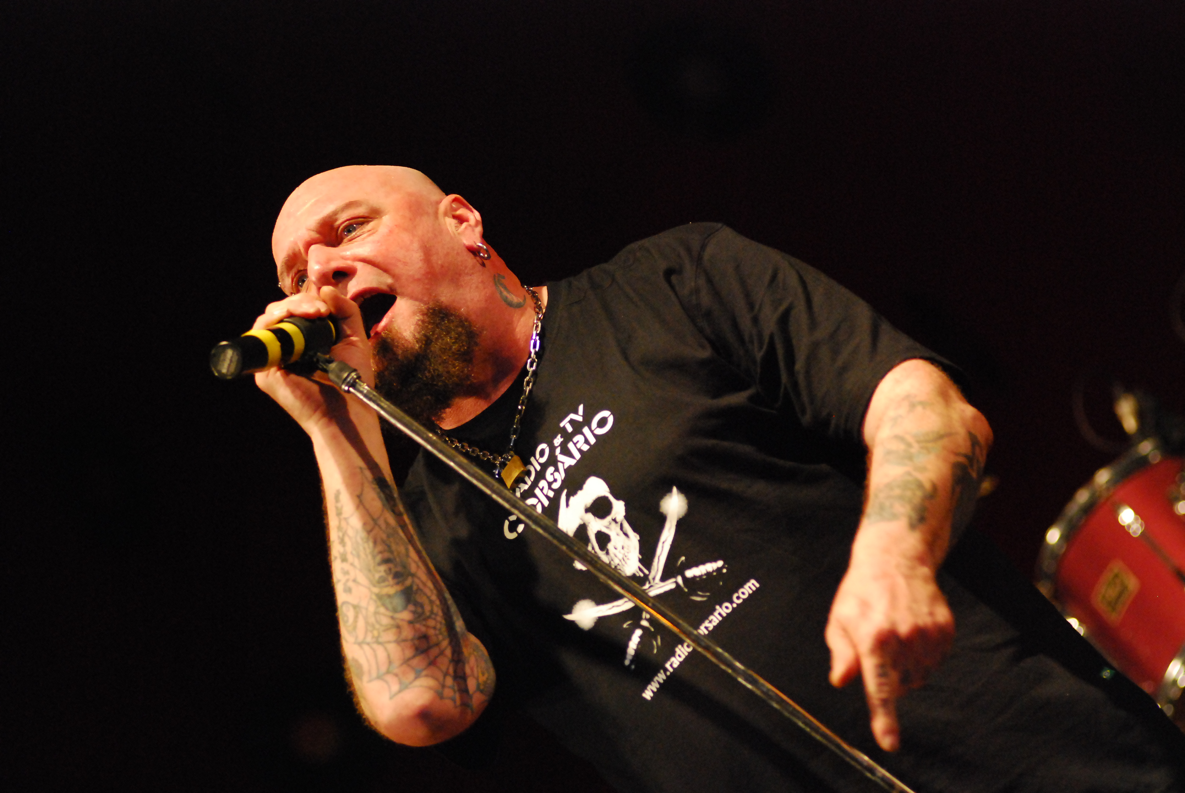 Paul Di'Anno perfoming live